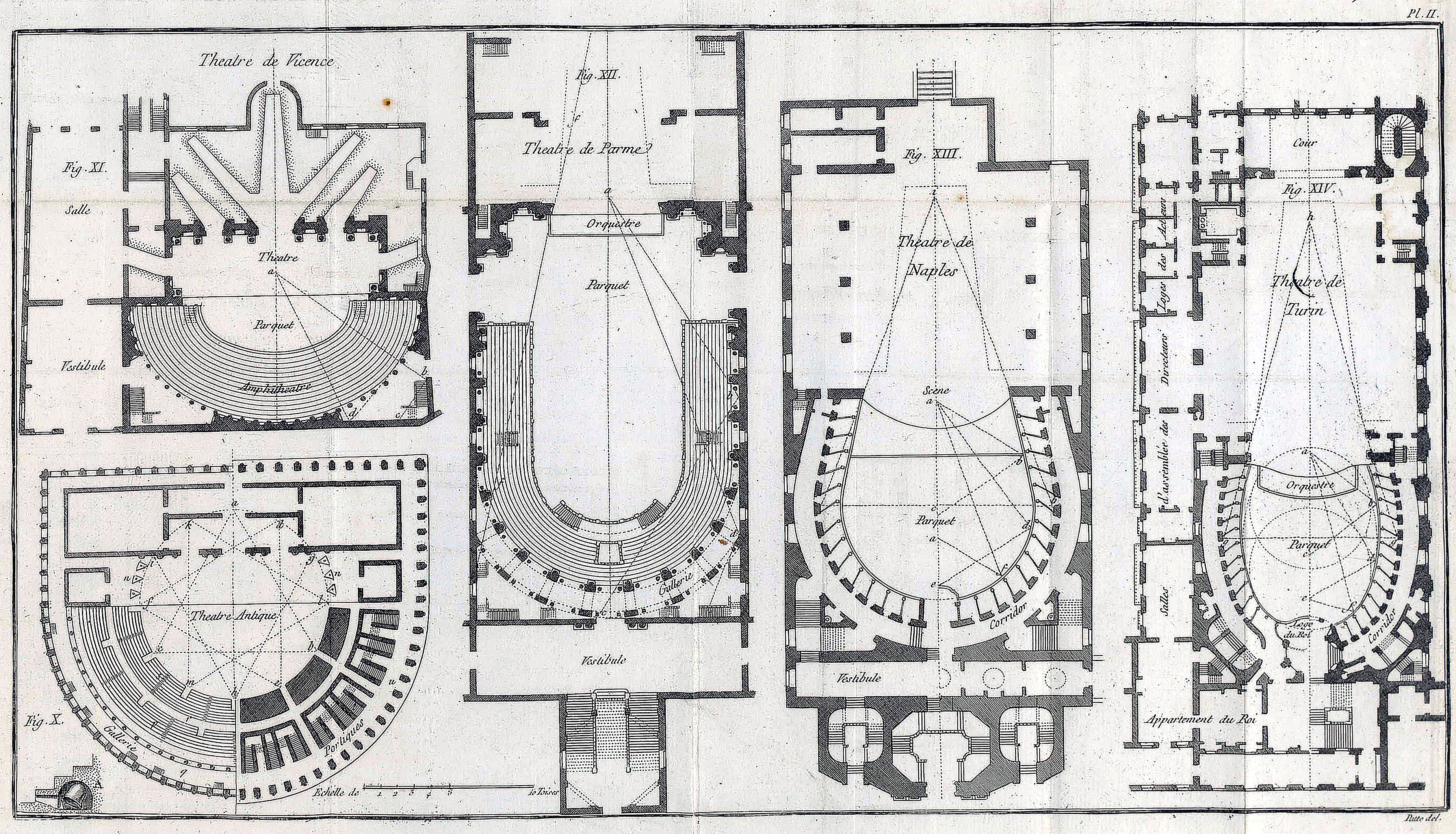 Plate II from Pierre Patte's Essai sur l'Architecture Théâtrale